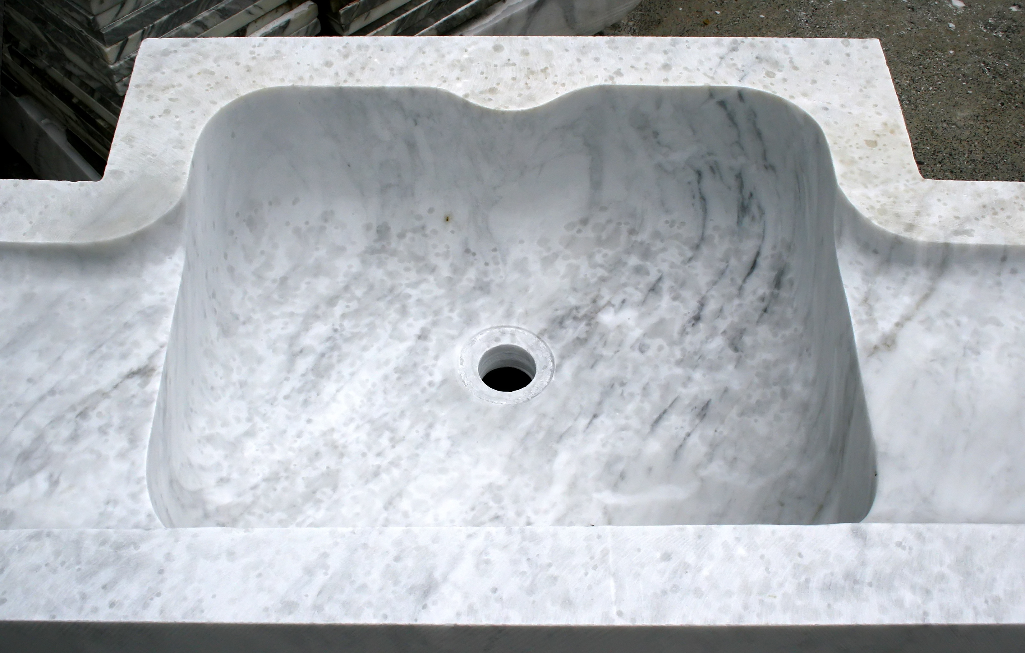 Retouched version of Bild:Waschbecken.JPG, which has the following description